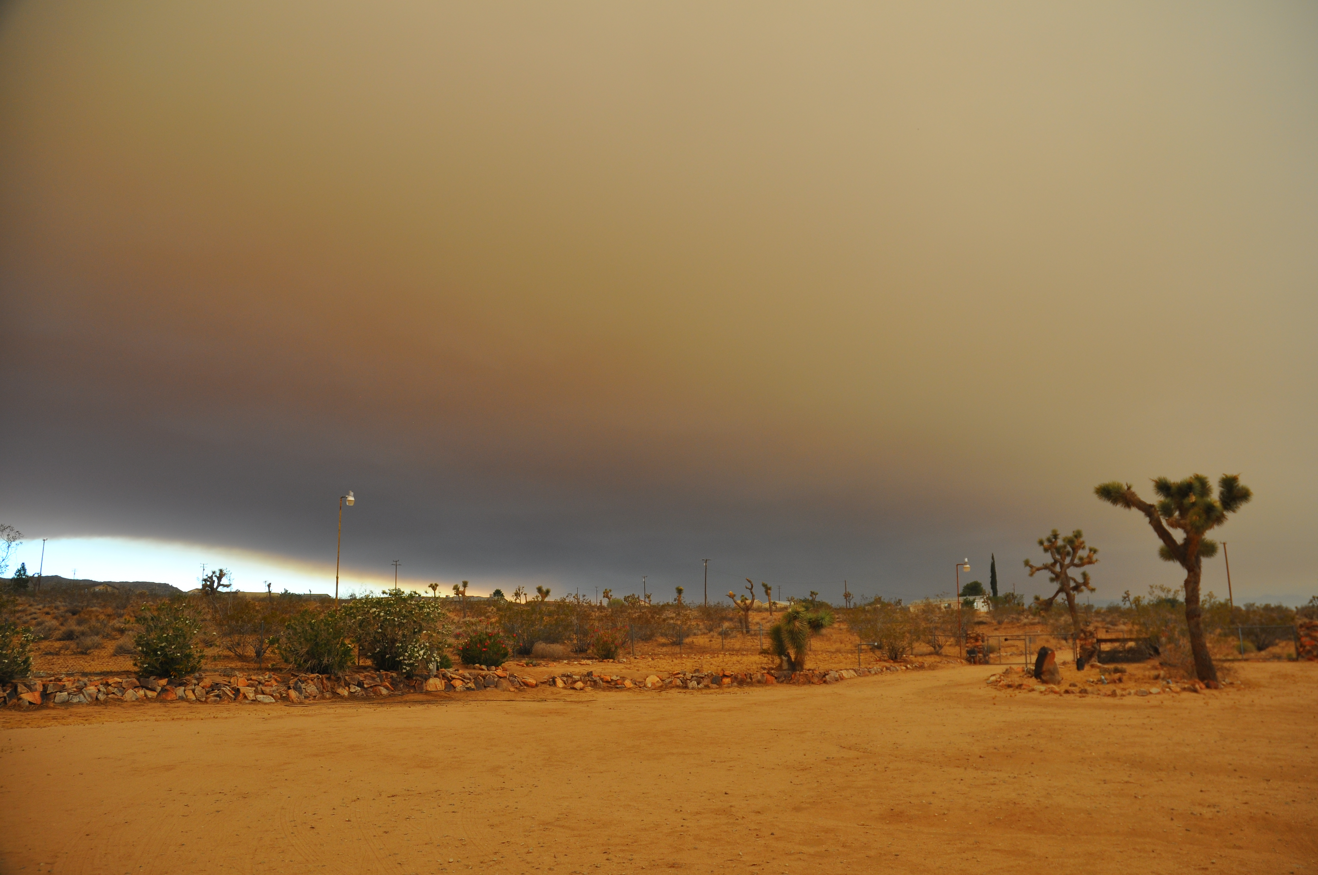 Eastern California Mojave desert blacked out from Barton Flats fire, June 18th, 2015